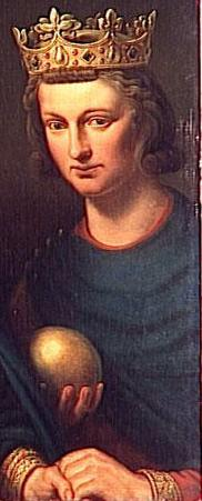 Carloman II, king of France